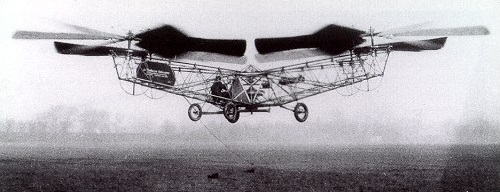 The de Bothezat helicopter, known as the "Flying Octopus", undergoes a test flight.